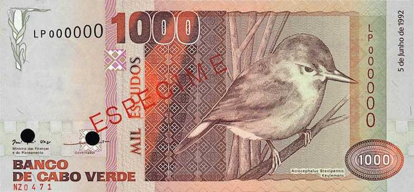 Cape-verdean 1992 1000CVE note - front